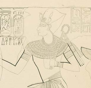 A Crop of Karl Richard Lepsius's Mural of Ramesses X of Egypt